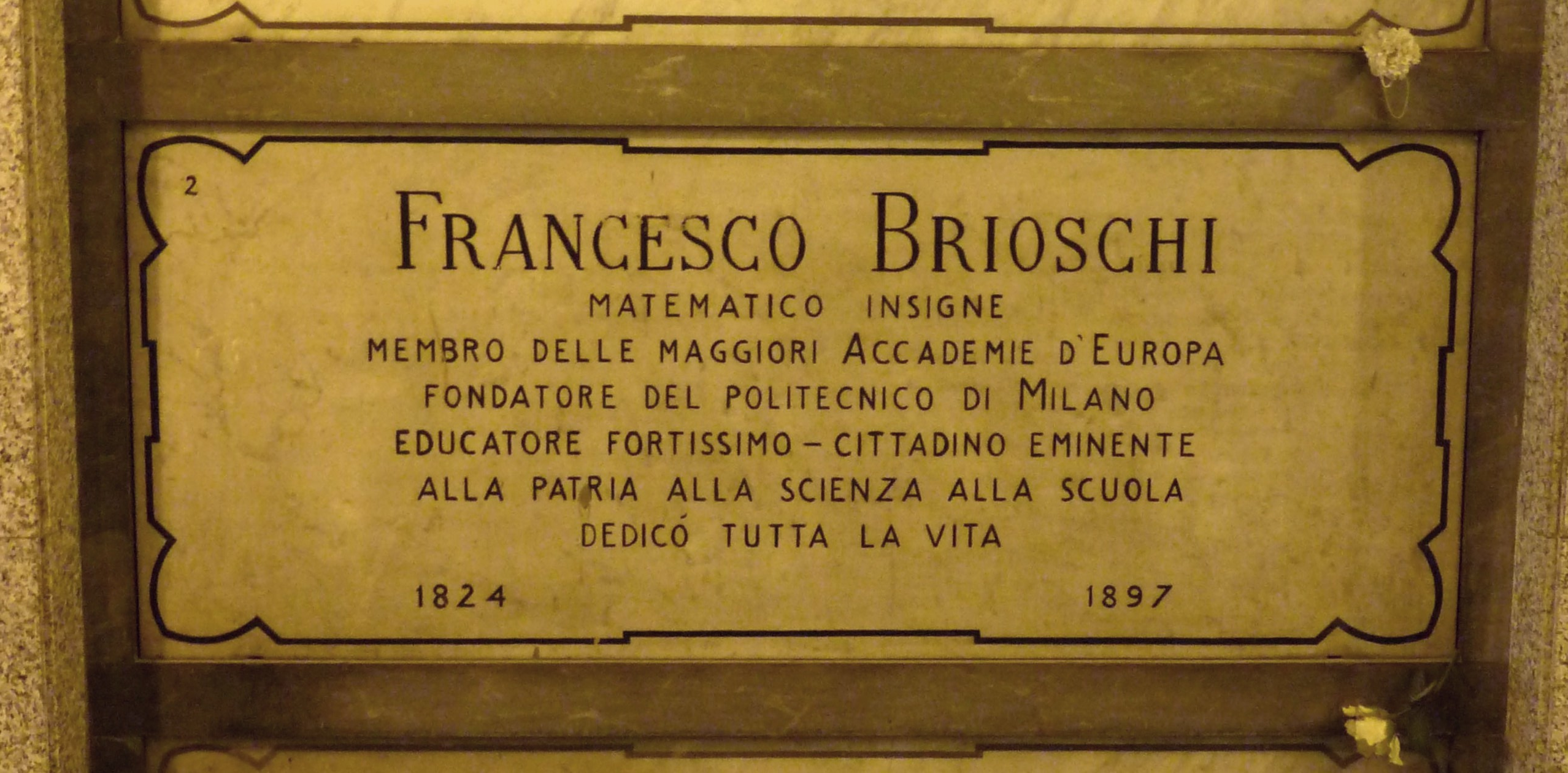 The grave of Italian matematician Francesco Brioschi at the Monumental Cemetery of Milan, Italy.